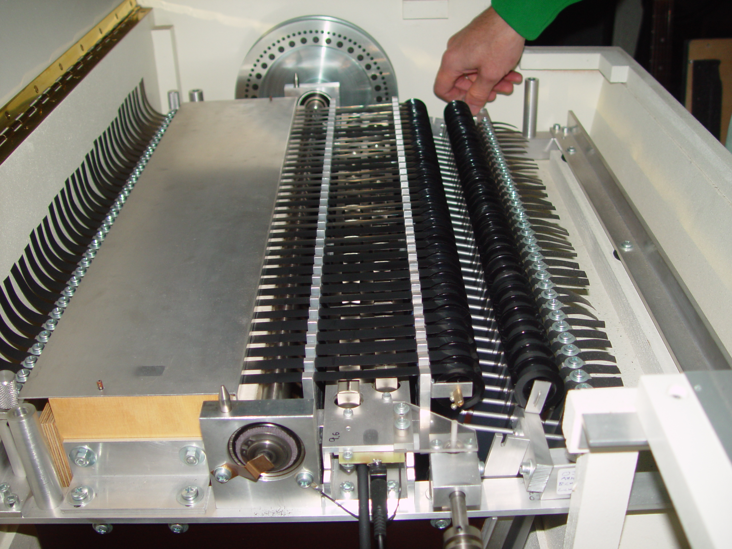 Changing the tape cartidge on the Mellotron